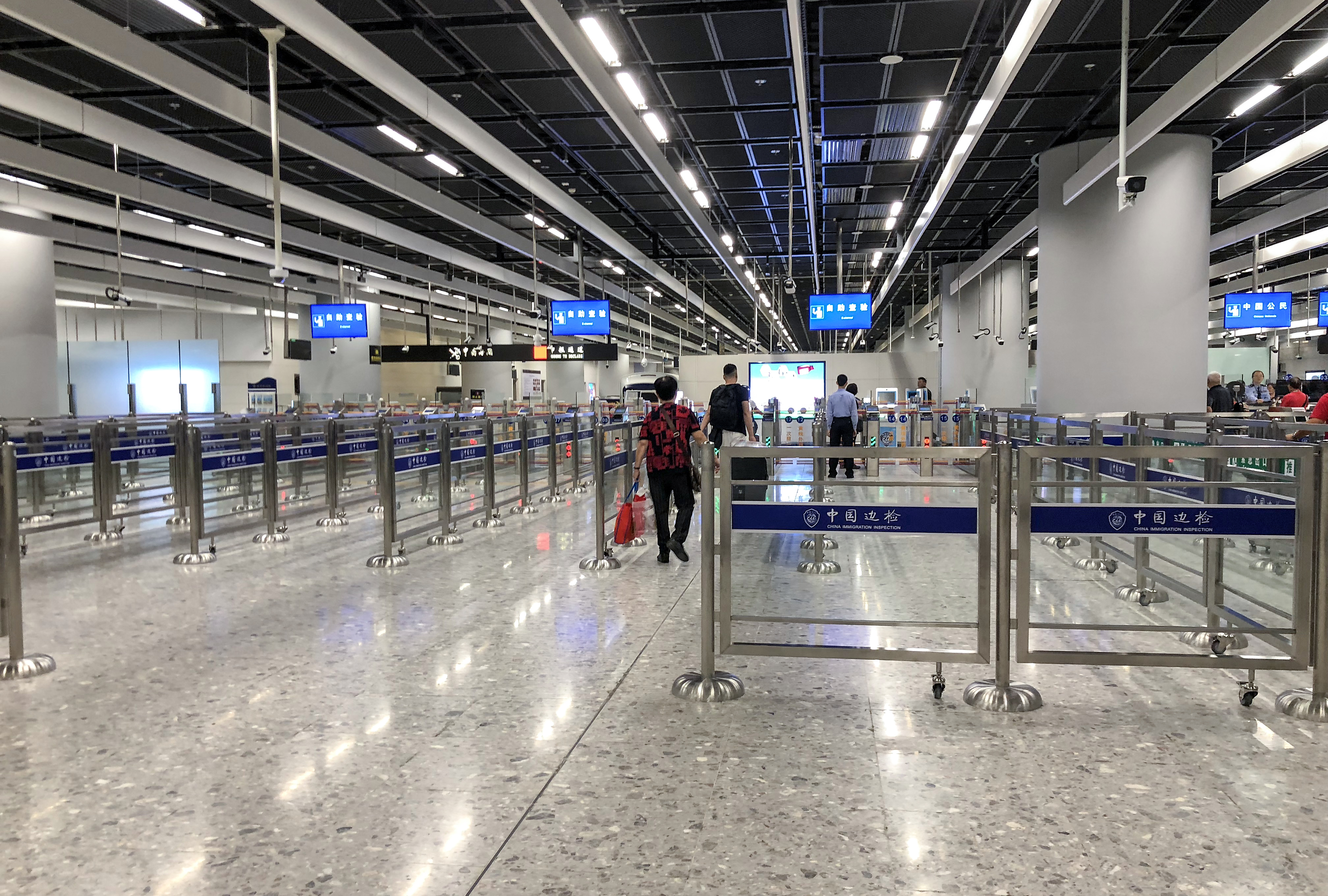 Tried to print a entry slip after passing the e-channel, and got "Shenzhen West Kowloon" markings.